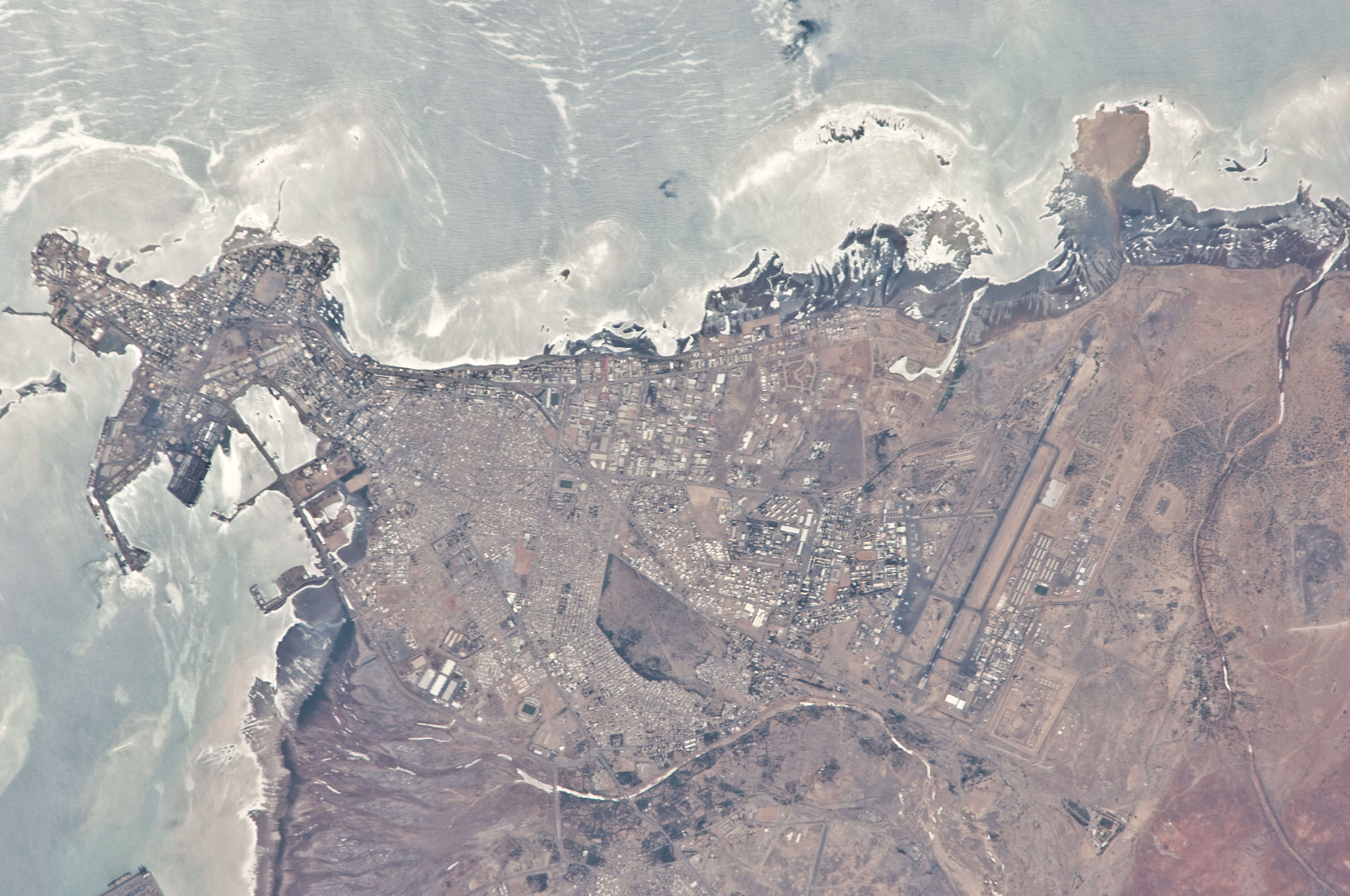 Astronaut Photo of Djibouti, Djibouti taken from the International Space Station (ISS) during Expedition 22 on March 15, 2010.